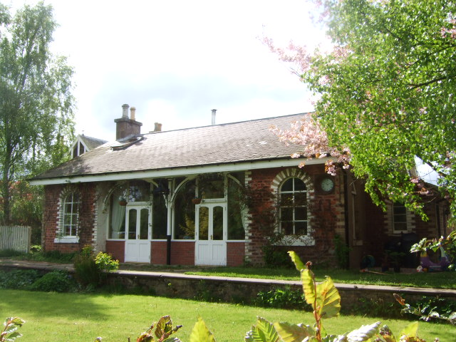 Dess Station Former ticket-office and waiting-room for old Deeside Railway passengers. Notice the platform clock on the right of the building.